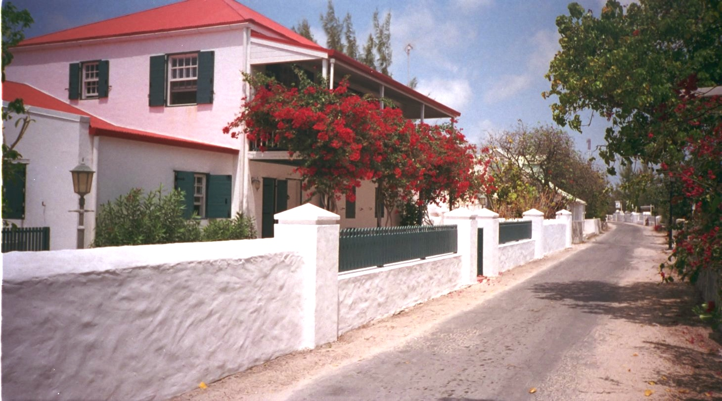 Cockburn Town taken by Sean Jackson